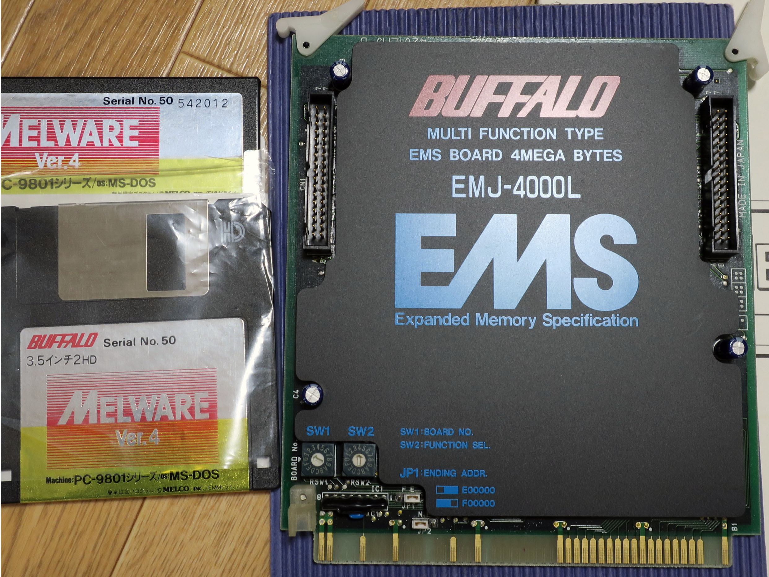 Buffalo (Melco Inc.) EMJ-4000 4 MB EMS memory expansion board and the driver disk for NEC PC-9800 series.